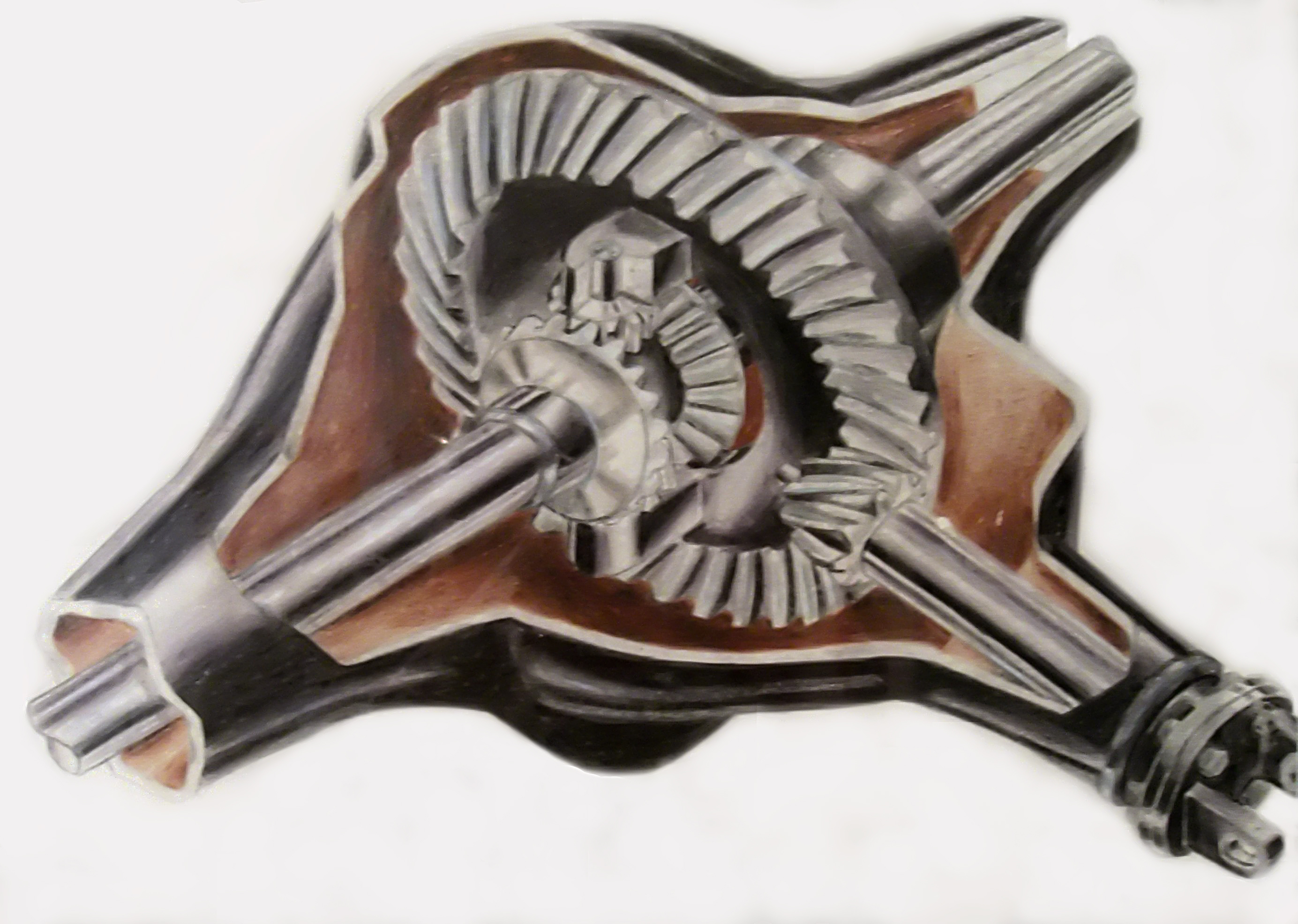 diagram of a differential between drive shaft and the rear wheels, my own drawing (used digital art program to increase contrast and remove parts not relevant)